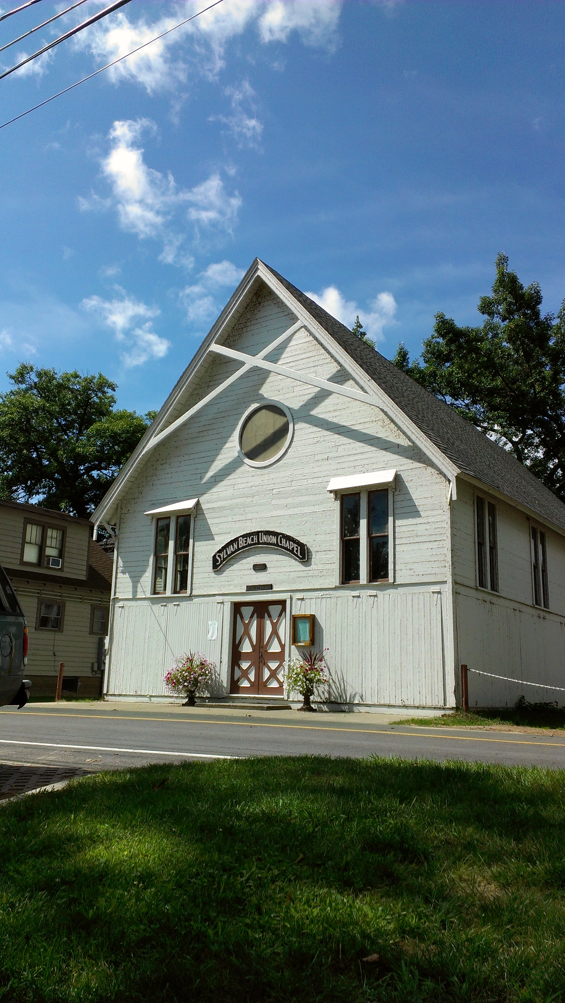 Sylvan Beach Union Chapel This photo was uploaded with Wiki Loves Monuments mobile 1.2.1 (Android).